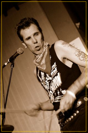 Slim Jim Phantom, Australia Tour, Adelaide 2006